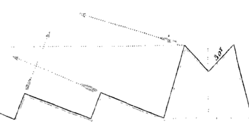 Crémaillère fortification layout from a 19th century book.